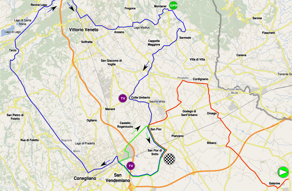 Map of the first stage of the Giro Rosa 2016.